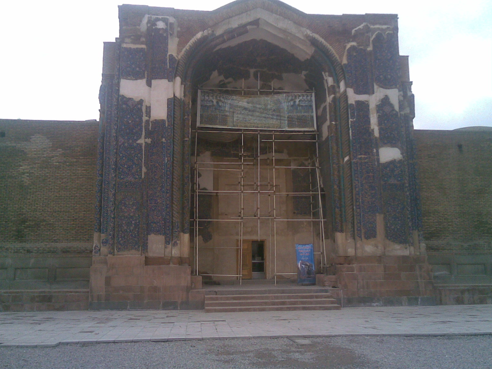 Eyvan of Göy Məscid (Blue Mosque), Tabriz, Iran